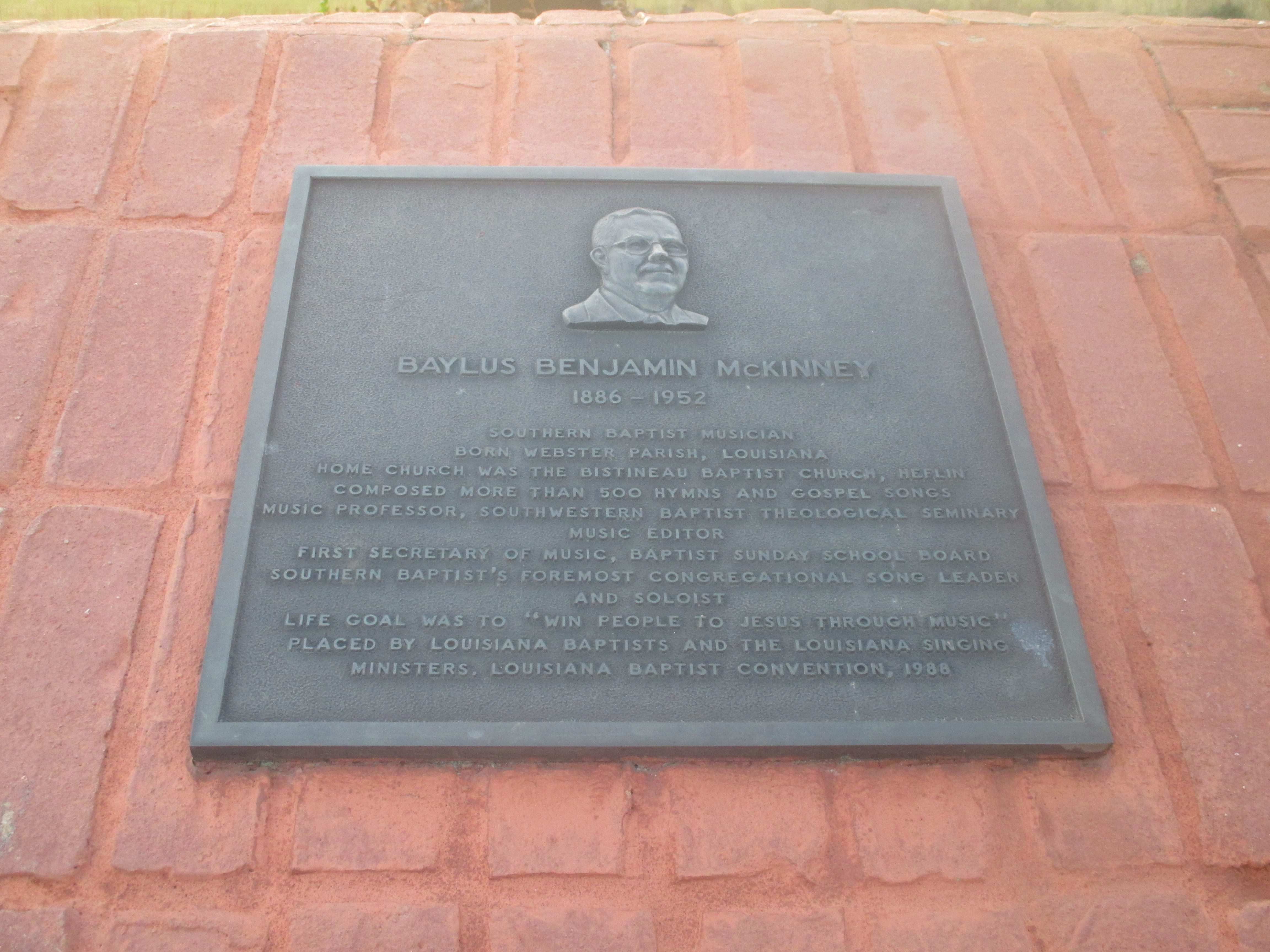 I took photo with Canon camera at Bistineau Baptist Church near Heflin, LA, of B.B. McKinney historical marker.